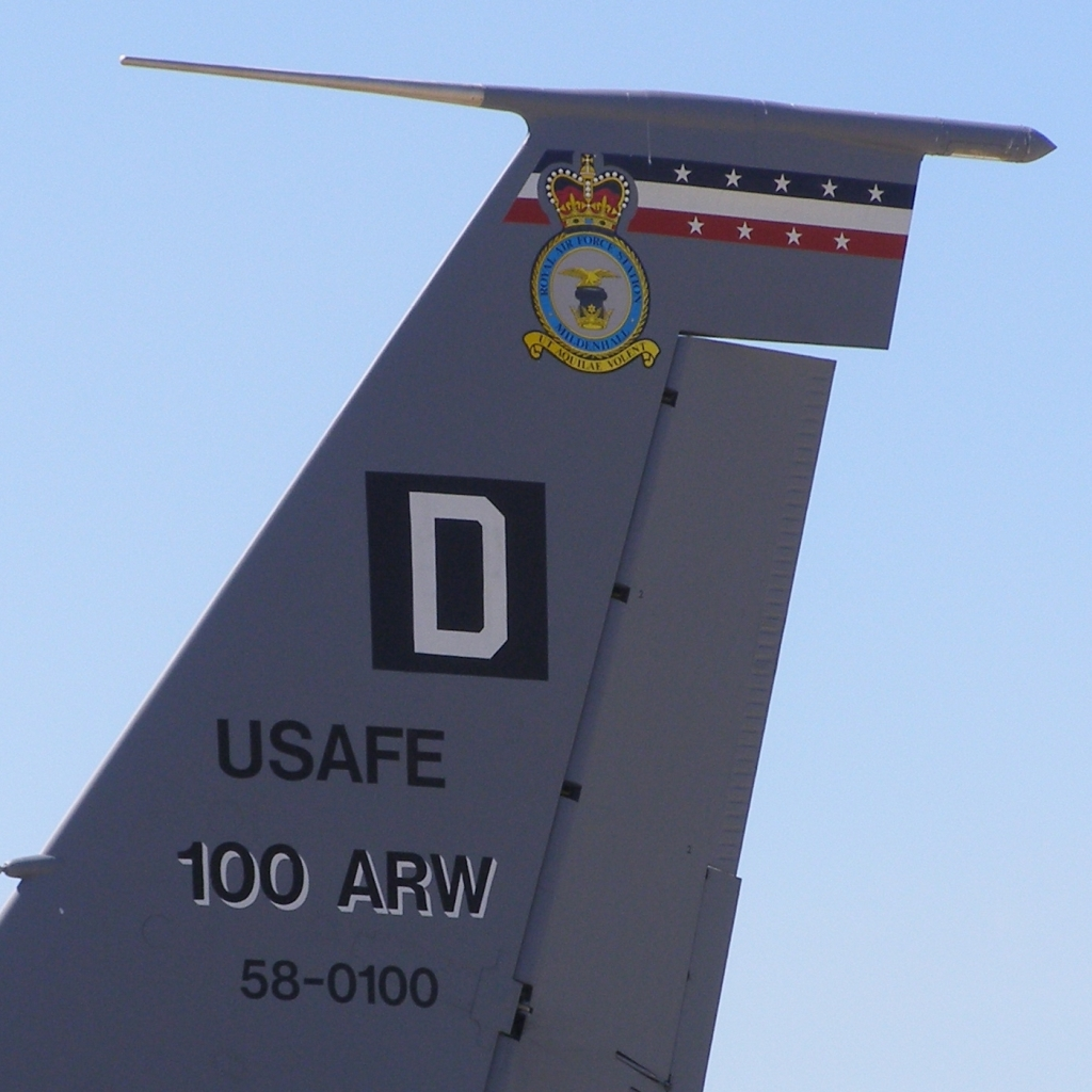 Tail of Boeing KC-135R Stratotanker of the United States Air Force 100th Air Refuelling Wing based at RAF Mildenhall, England. At RAF Fairford, July 2006.